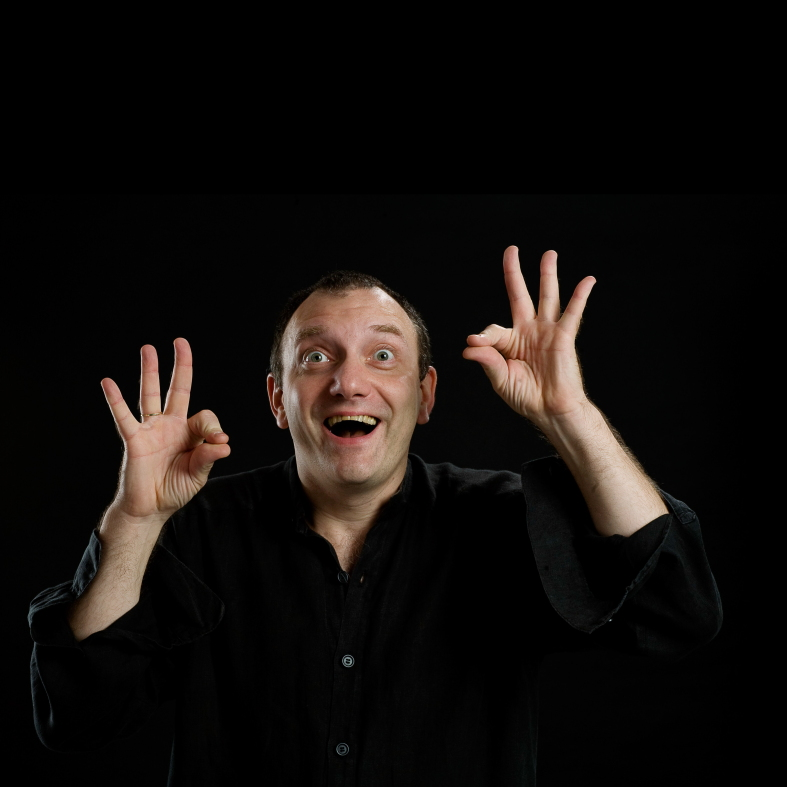 Marko Stojanović — Serbian actor, mime artist, cultural and humanitarian activist Српски (ћирилица): Марко Стојановић — српски глумац, пантомимичар, културни и хуманитарни радник Srpski (latinica): Marko Stojanović — srpski glumac, pantomimičar, kulturni i humanitarni radnik